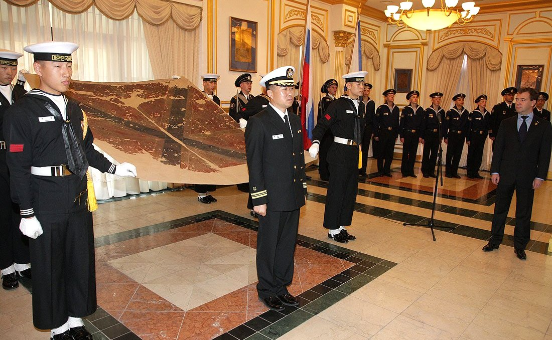 Ceremony of transferring the Varyag cruiser flag.